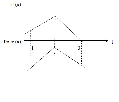 The file represents the link between the assets price and common utility.